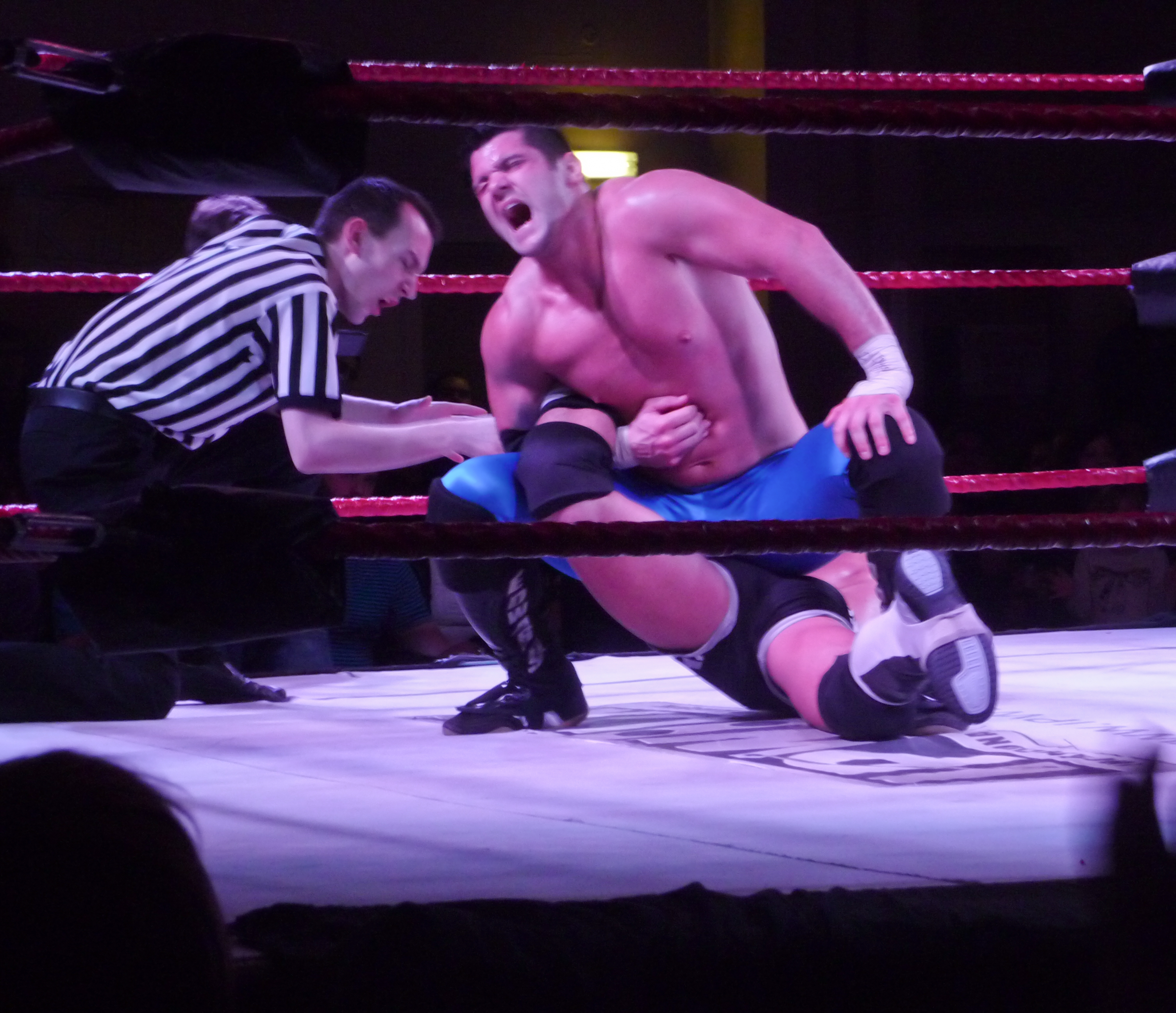 Eddie Edwards applying a single boston crab hold